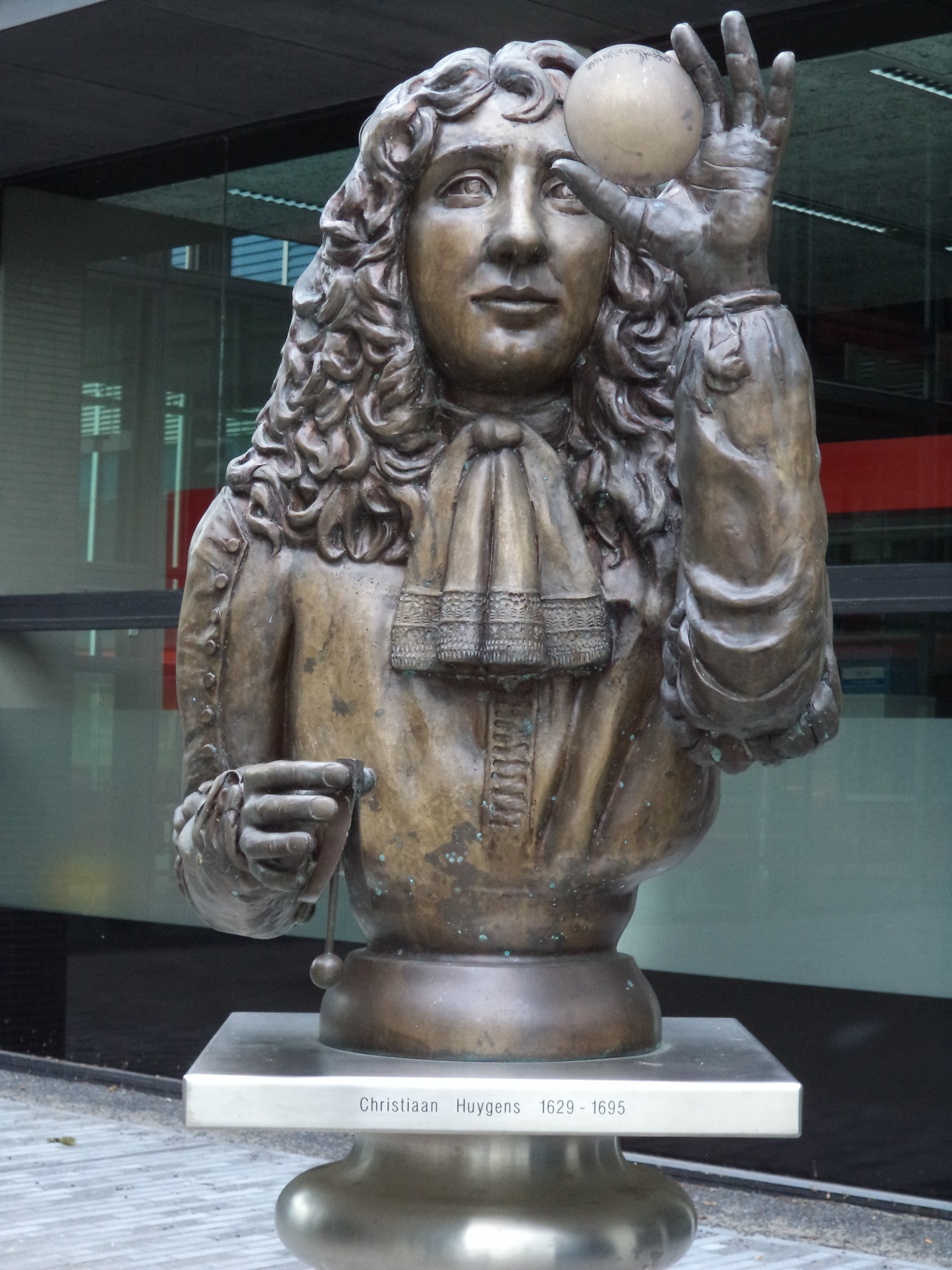 Statue of Christiaan Huygens in front of building TU Delft